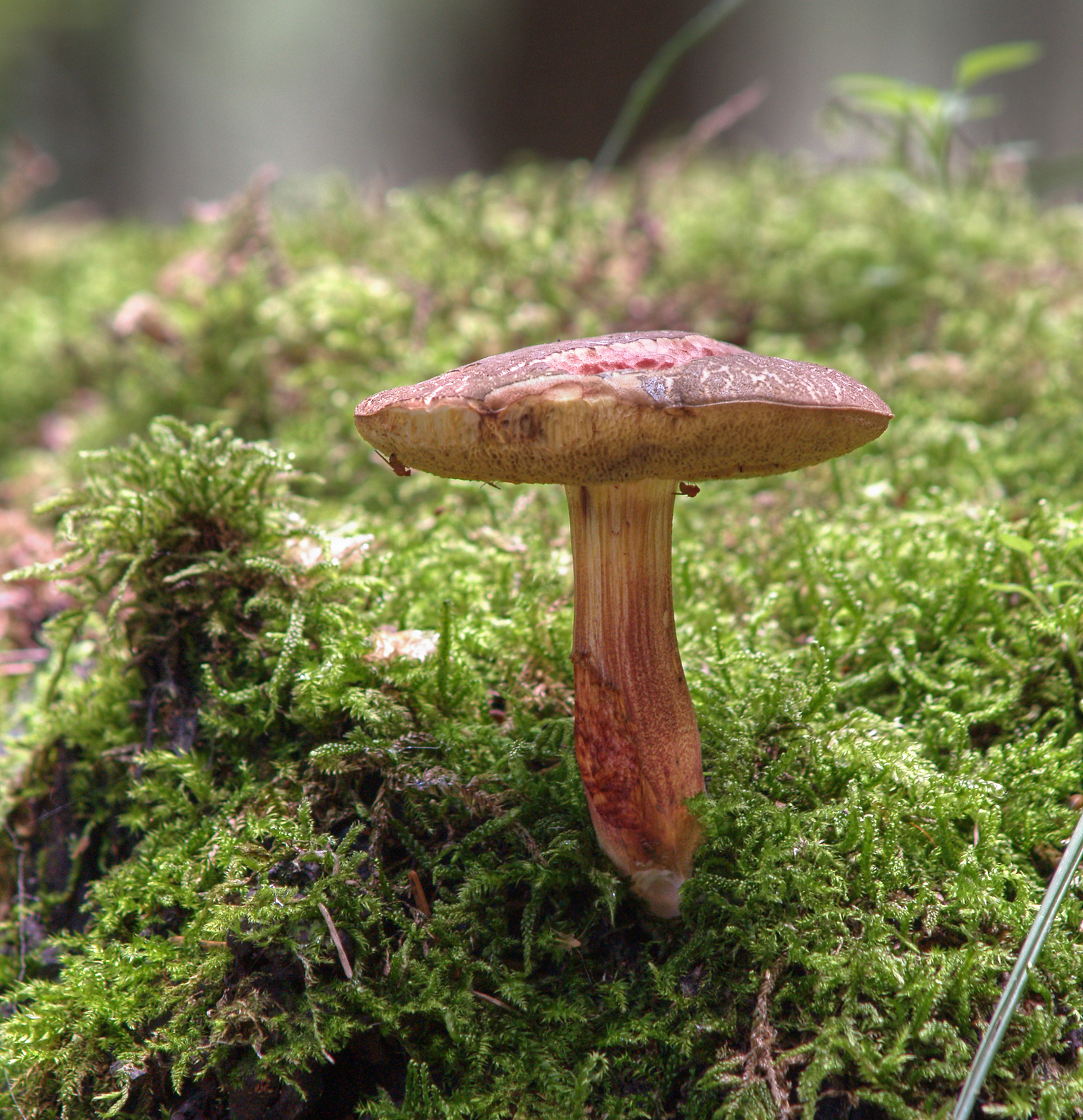 Boletus chrysenteron, Chemnitz, Germany